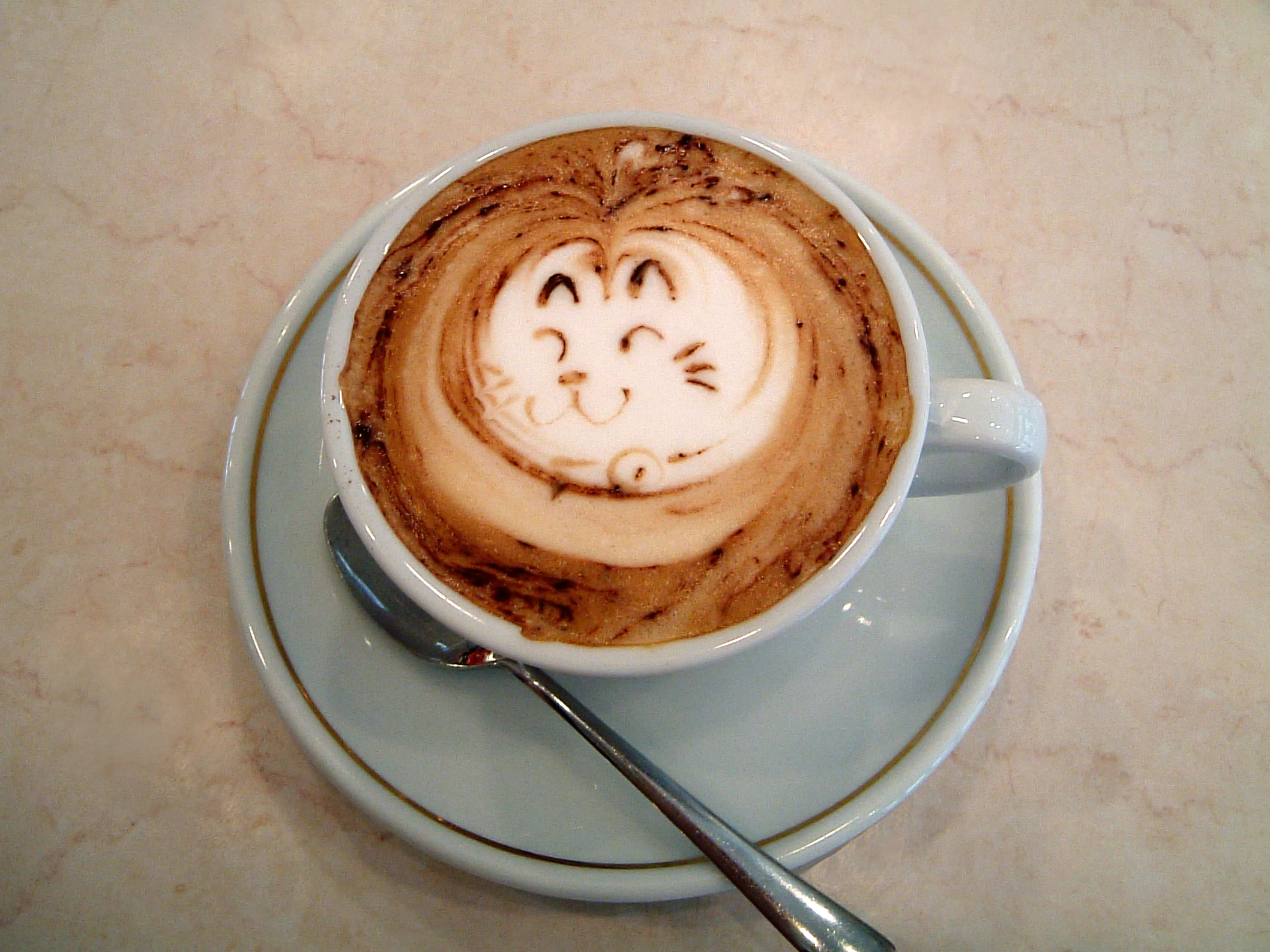 Latte art (etching) - the cat